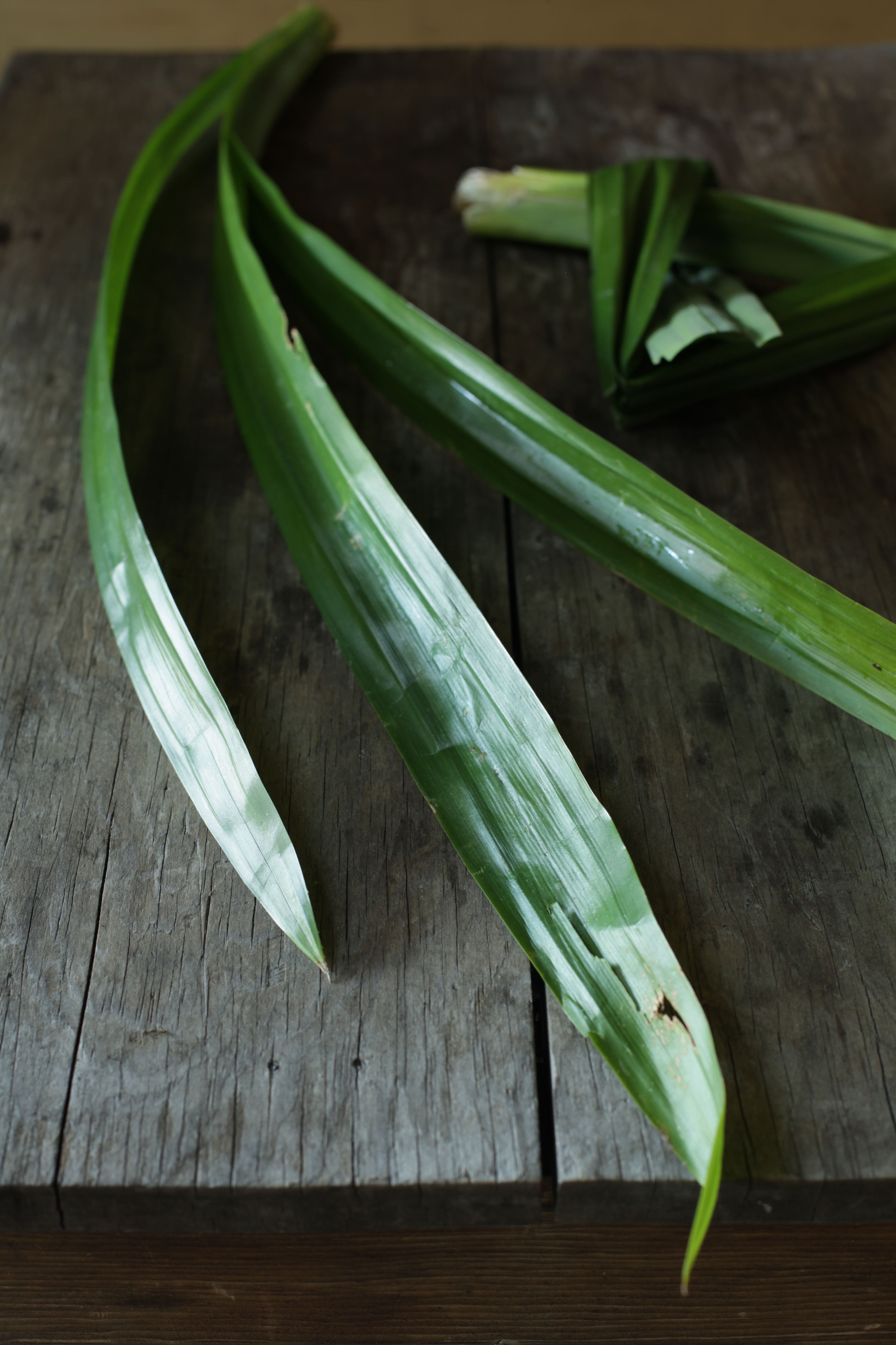 Fresh pandan leaves on a wood table You are free to: Share — copy and redistribute the material on your website. Adapt — remix, transform, and build upon the material for any purpose online, even commercially. However, you must give appropriate credit and provide a link next to the image you use to at the home page, or the original post, here